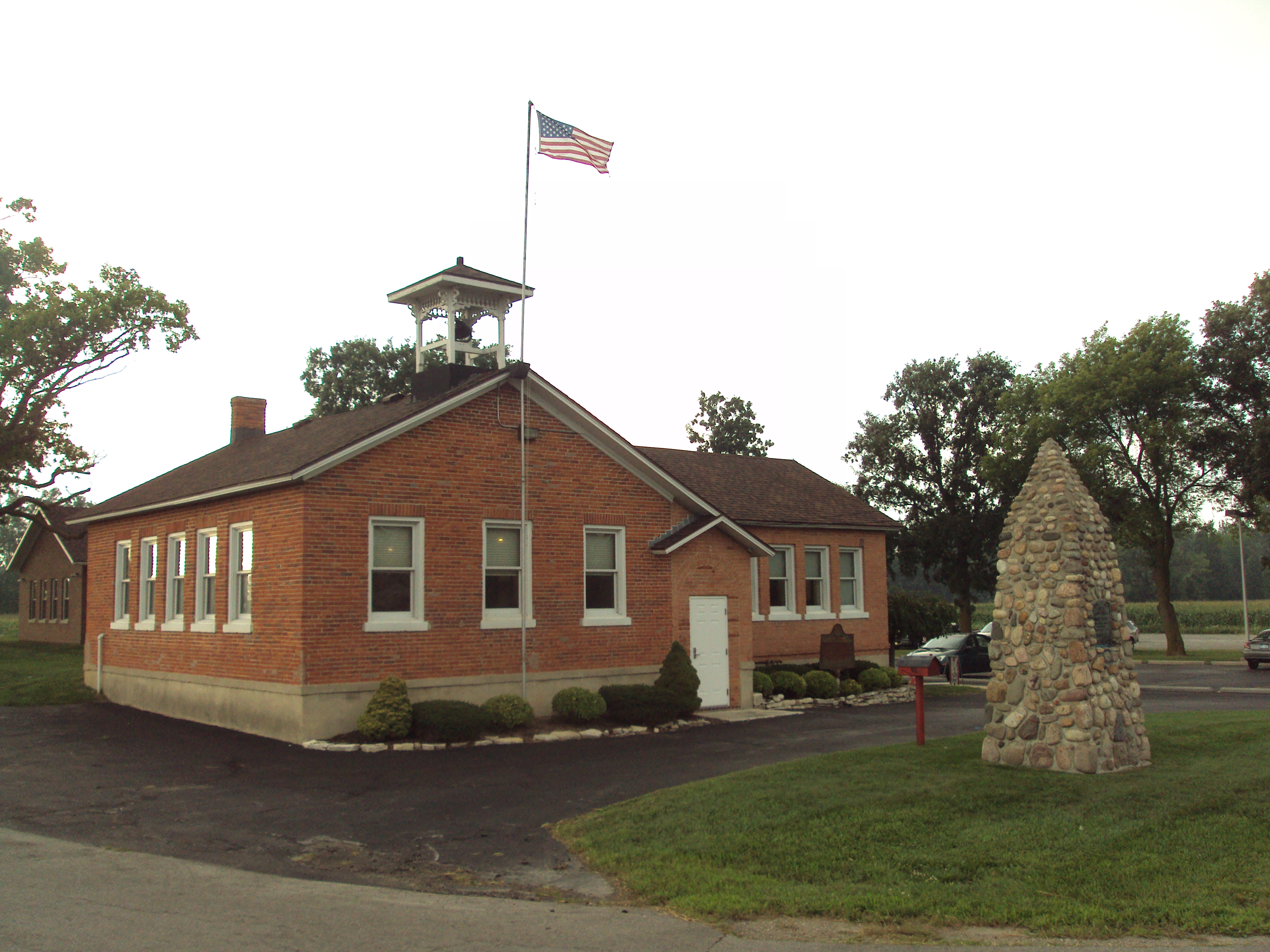 Town hall in Raisinville Township, Michigan. Former Bridge School — the 1st school in Michigan.